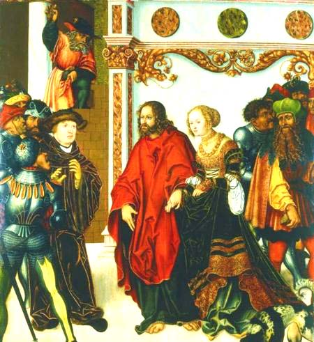 Reproduction of old painting in public domain